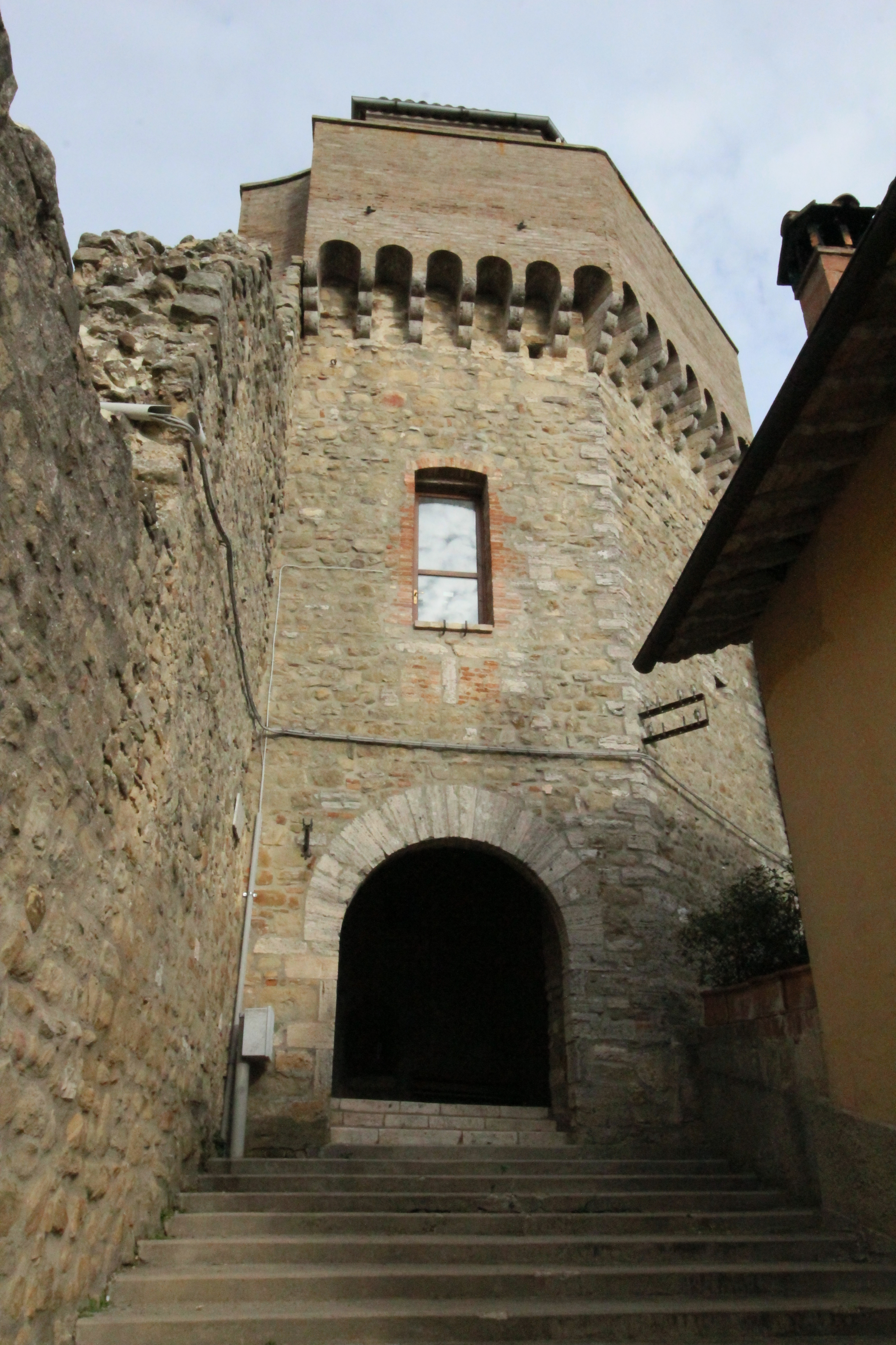 Defensive Walls of Collazzone, Province of Perugia, Umbria, Italy